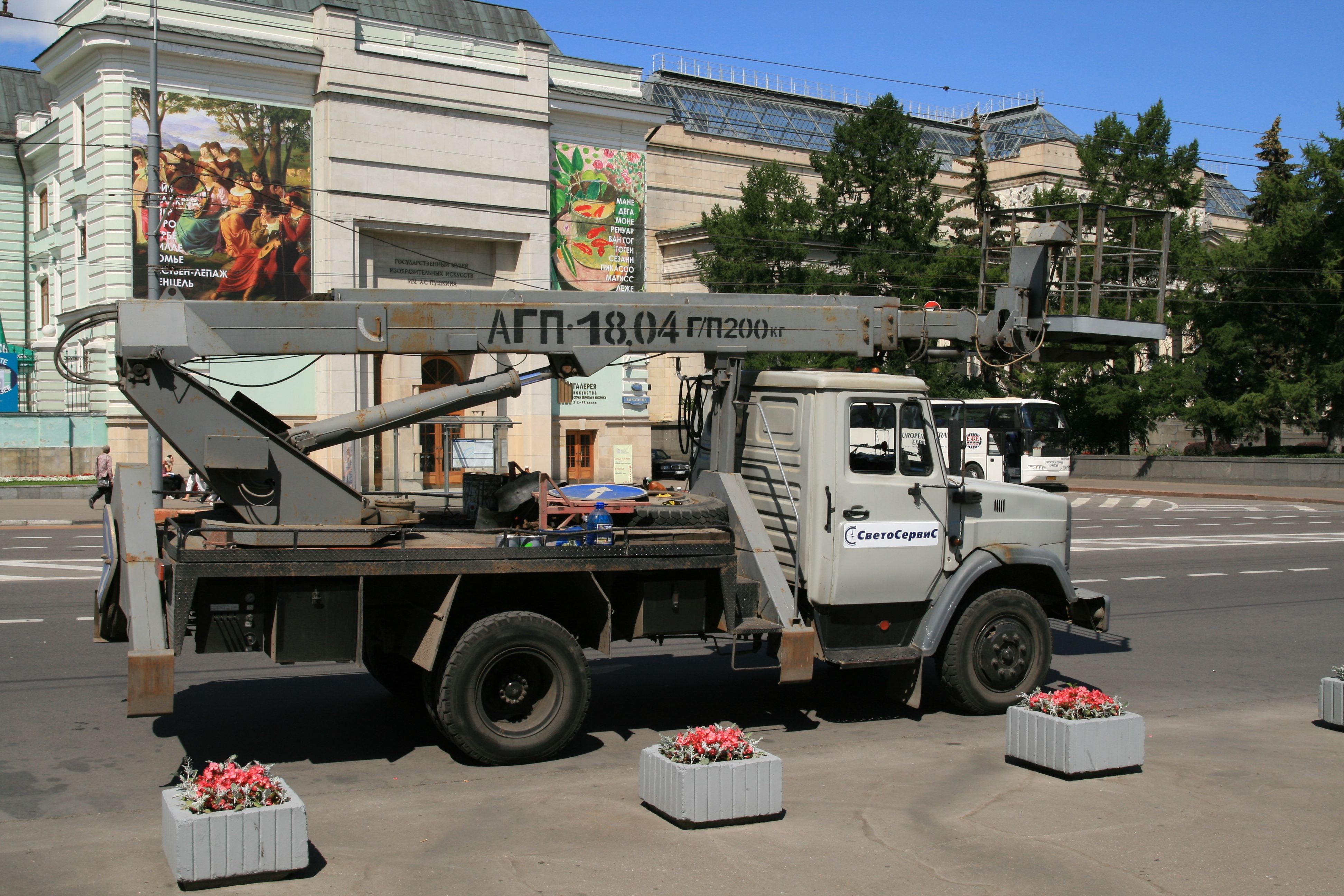 Aerial work platform based on a truck in Russia.